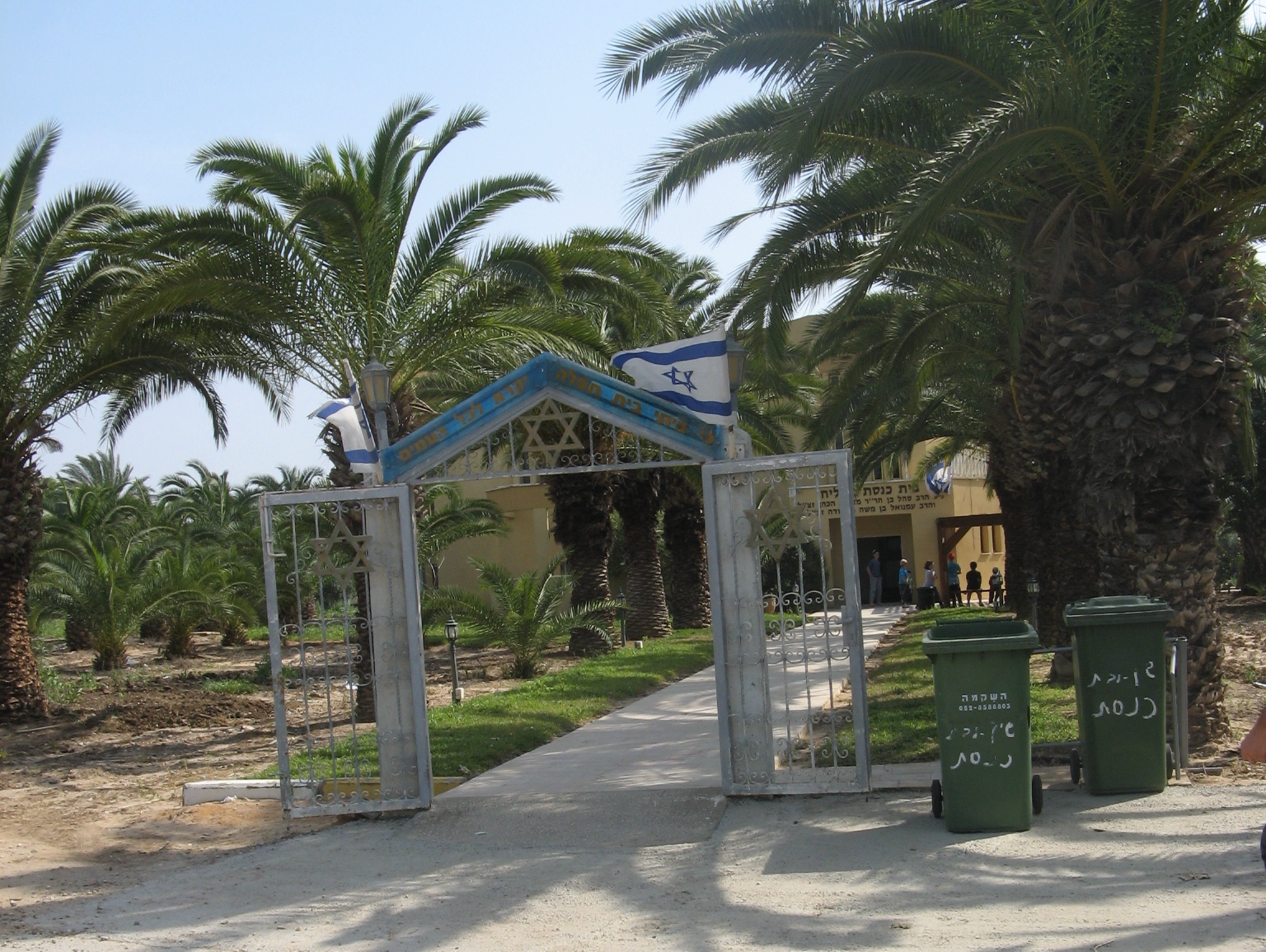 Outside of Karaite Synogauge in Matzliach